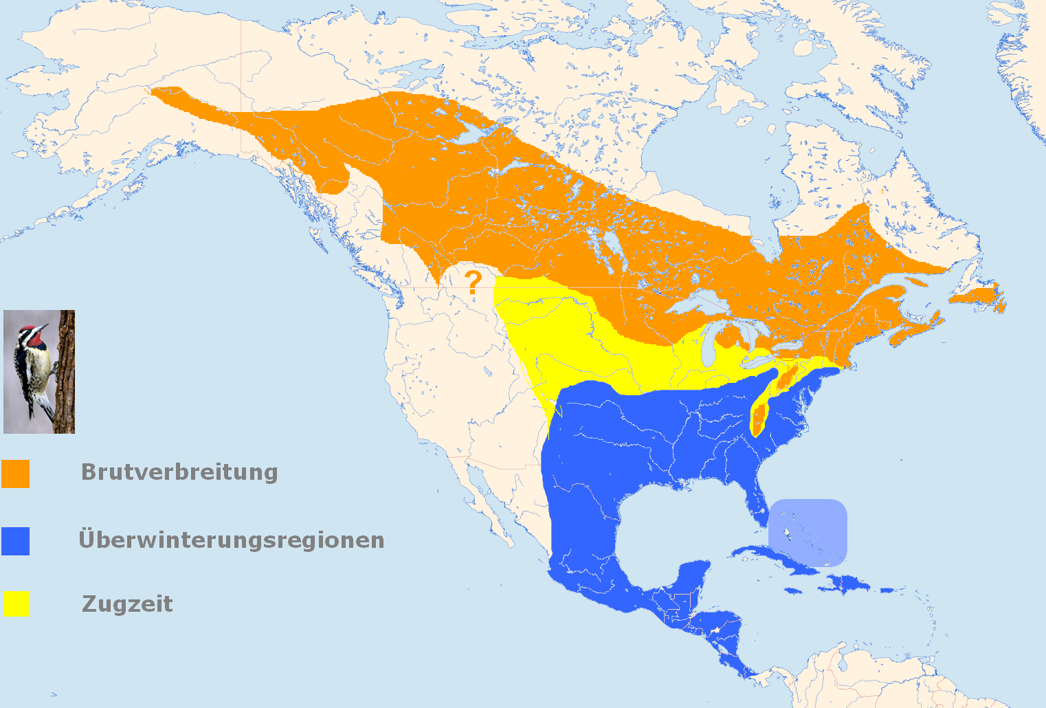 Range Map of Yellow-bellied Sapsucker